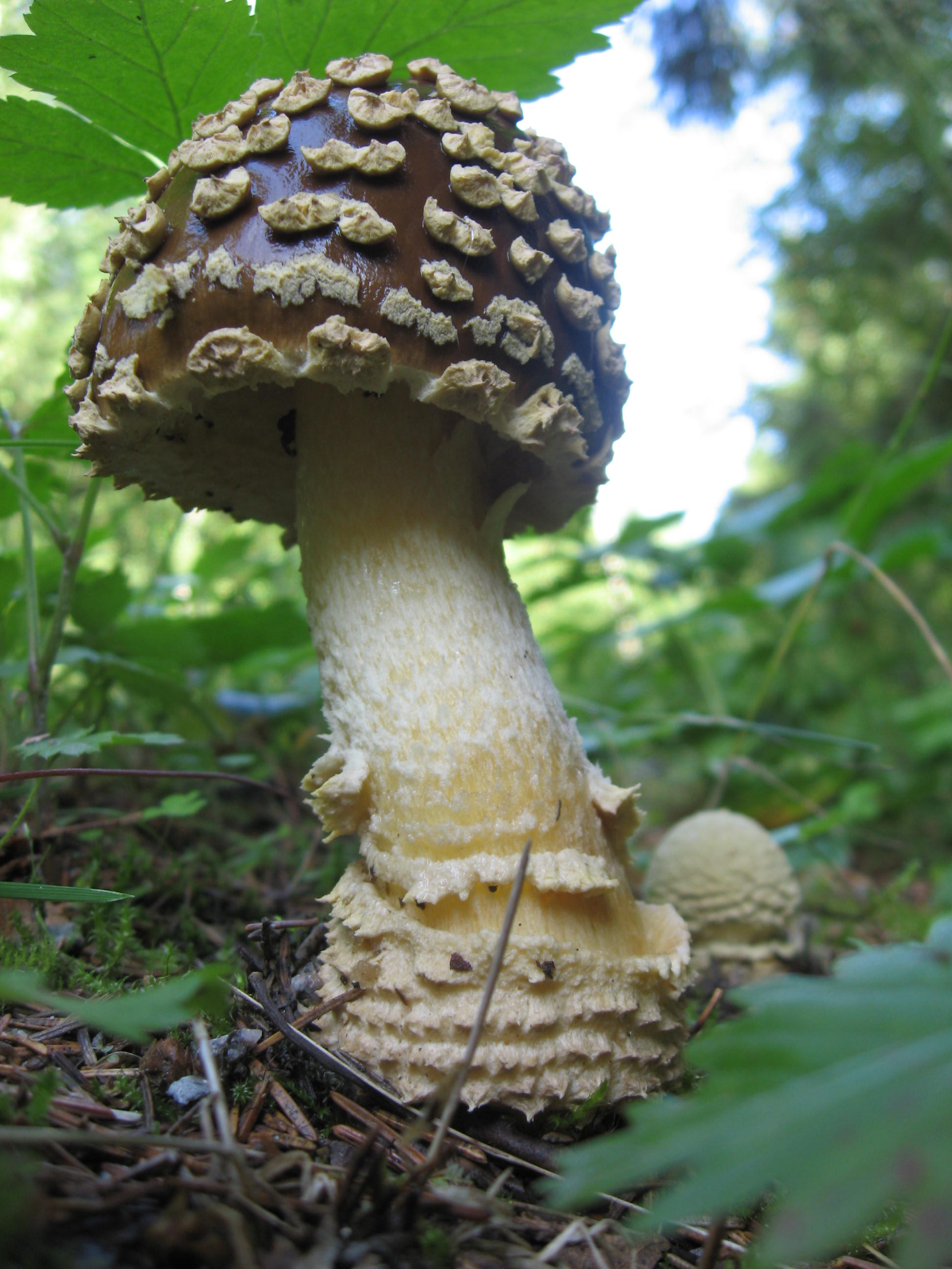 The mushroom Amanita regalis (Fr. : Fr.) Michael. Photographed in Finland.